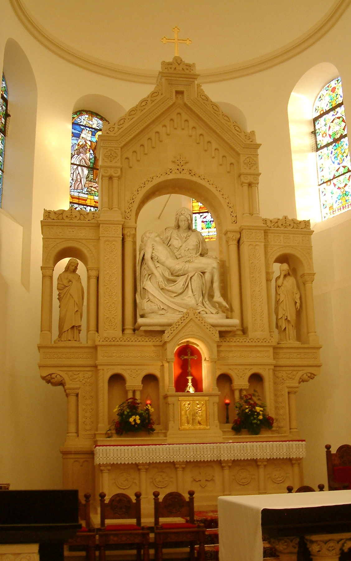 Church of Mother of Sorrow in Poznań, Main altar